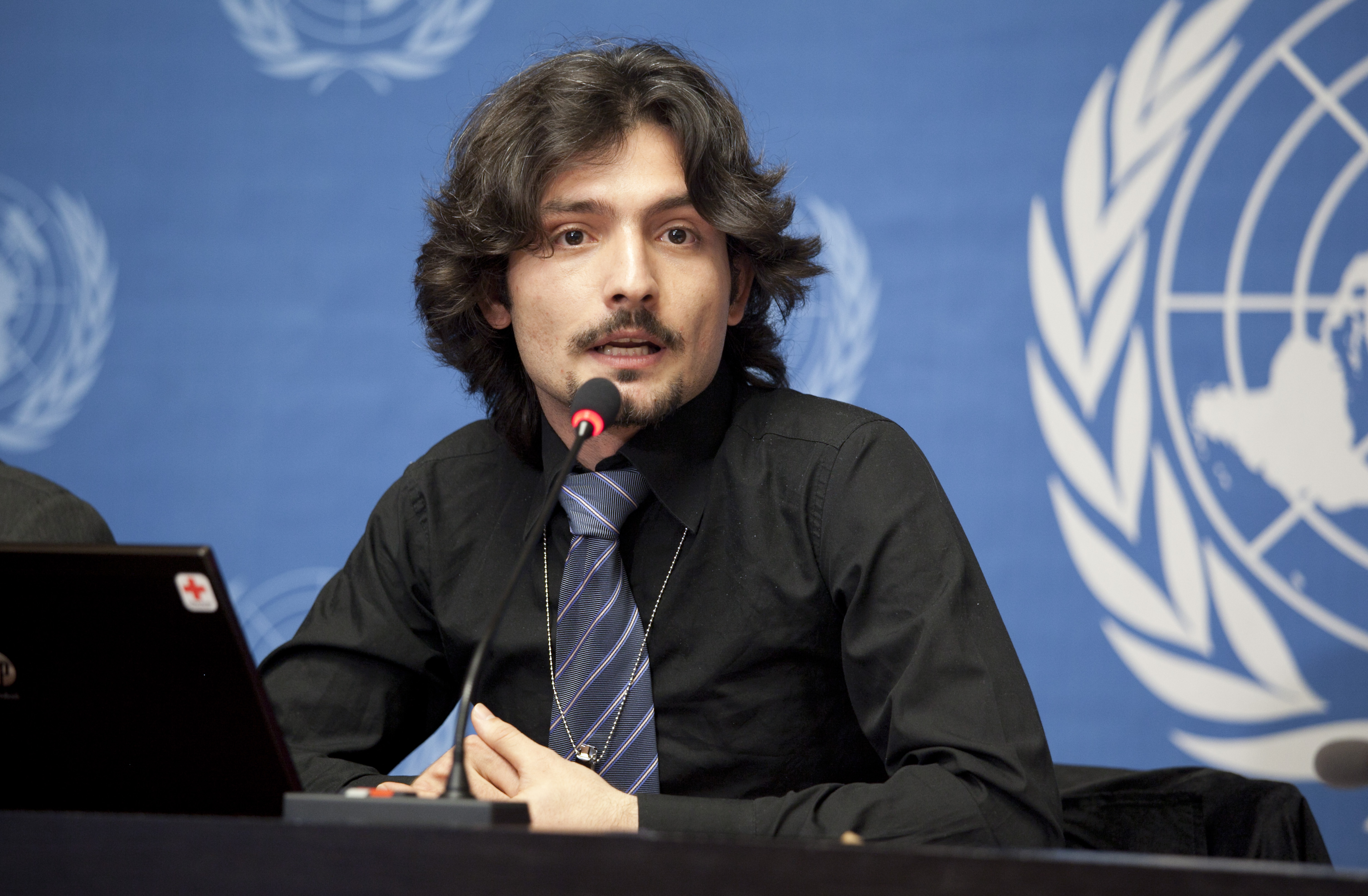 Dlshad Othman (Syria): Mr. Othman is a Syrian activist and IT engineer who provides Syrians with digital security resources and assistance so that they can utilize online communications and advocacy freely and securely in spite of increased online government repression in the form of censorship, sophisticated cyber attacks, and intense surveillance. The Internet Freedom Fellows program funded by the U.S. Department of State and managed by the U.S. Mission to the United Nations in Geneva, brings human rights activists from across the globe to Geneva, Washington, and Silicon Valley to meet with fellow activists, U.S. and international government leaders, and members of civil society and the private sector engaged in technology and human rights. A key goal of the program is to share experiences and lessons learned on the importance of a free Internet to the promotion of freedom of expression and freedom of assembly as fundamental human rights. The Fellows are in Geneva June 19-22 during the 20th session of the United Nations Human Rights Council. This year’s Internet Freedom Fellows, all human rights activists and active practitioners of digital media, are from Syria, India, Burkina Faso, Cambodia, Venezuela and Azerbaijan.